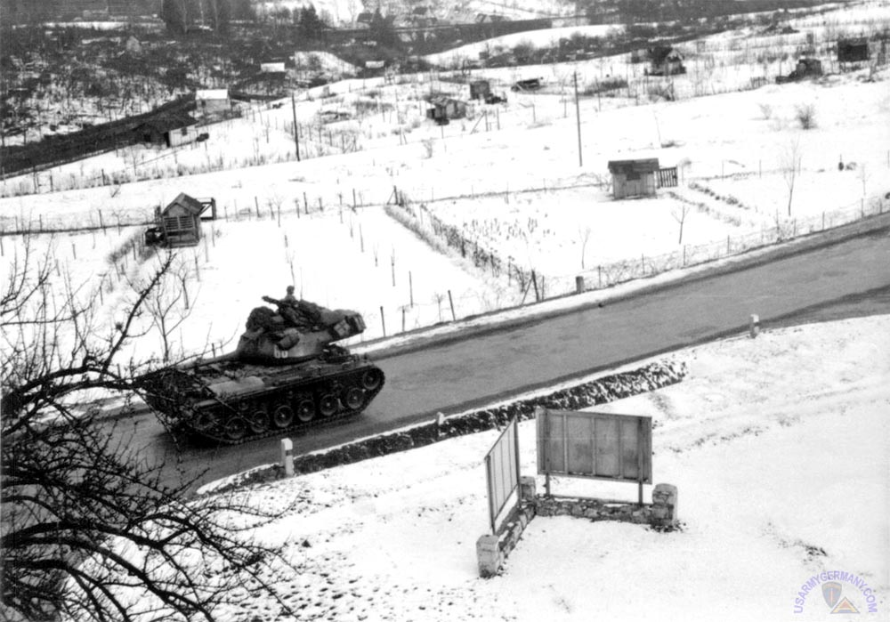 US M47 Tank runnig out a military facility in Ulm (Germany)